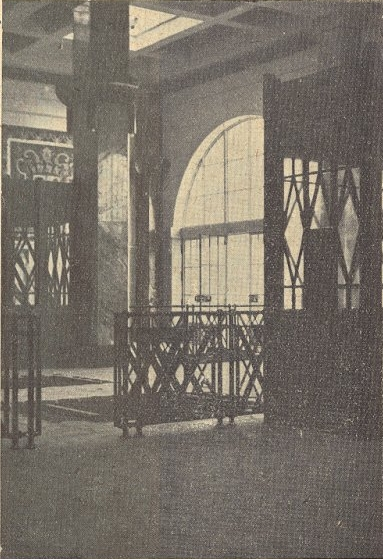 Interior of the Sul e Sueste Railway Station, in the city of Lisbon, in Portugal. This building was inaugurated on the 28th March 1932. This photograph was originally published in the Gazeta dos Caminhos de Ferro No. 1058, of the 16th January 1932, and scanned by the Hemeroteca Municipal de Lisboa.